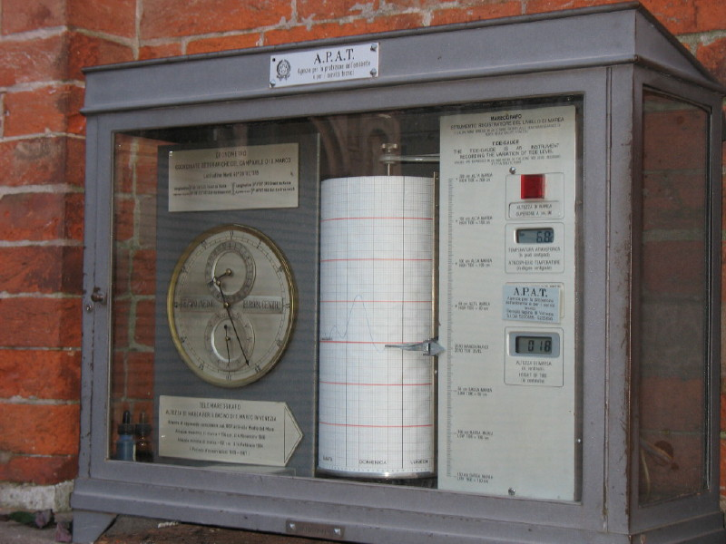 At the base of the bell tower of San Marco, they have several cool instruments. This shows the official time and the level of the water.